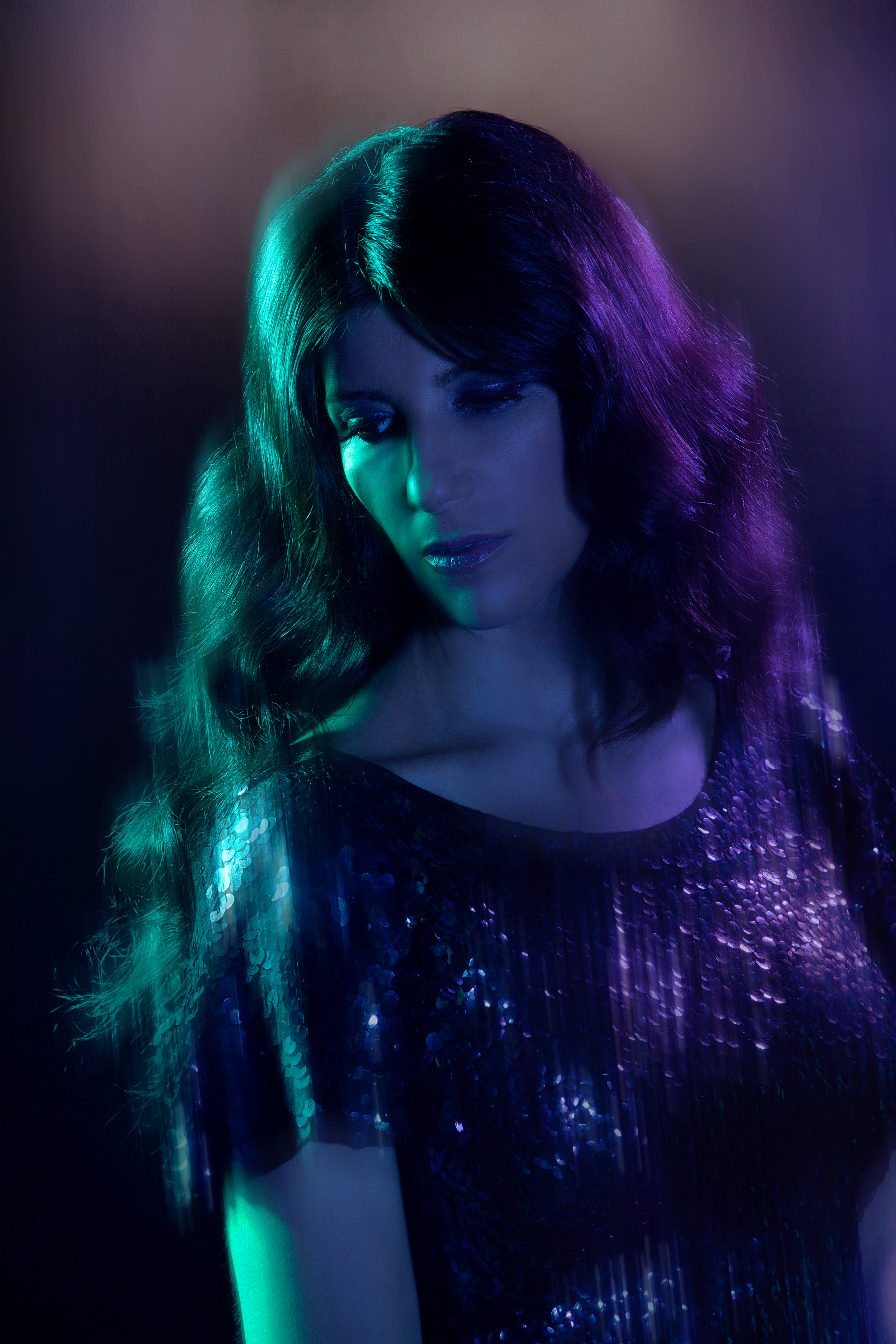 Official press photo of Shana Halligan taken on March 5, 2015.